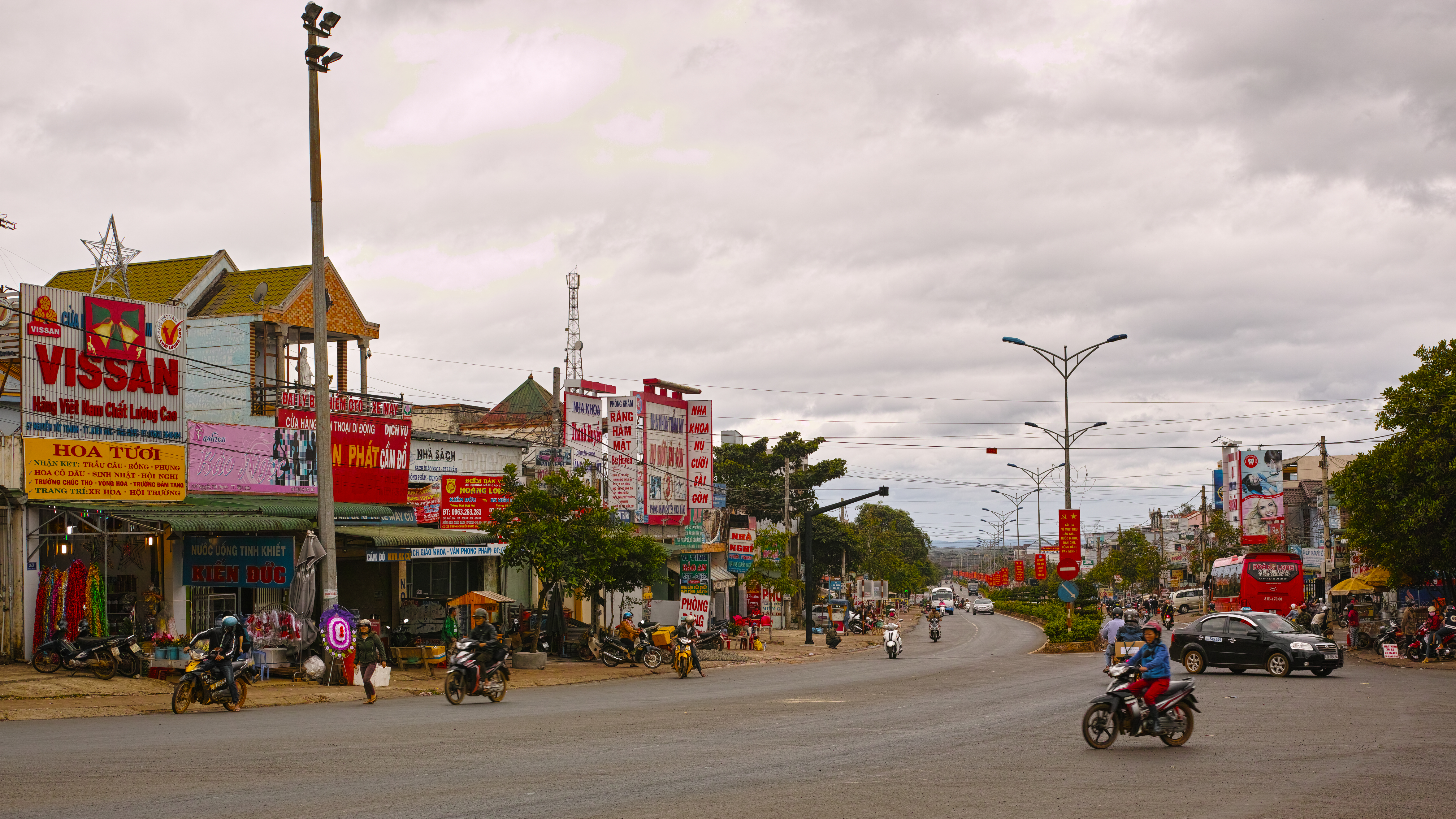 Kiến Đức town in Đăk R'Lấp district of Đăk Nông province, Vietnam.